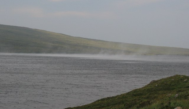 Spindrift on Loch na h-Oidhche. Sandwiched between two high ridges Loch na h-Oidhche is a notorious wind funnel.